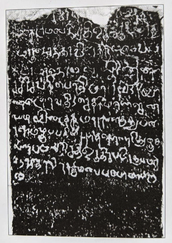 Slab 2 Hindu ruins anuradhapura